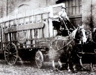 Carriage of the Brunswick Company delivering billiard tables.